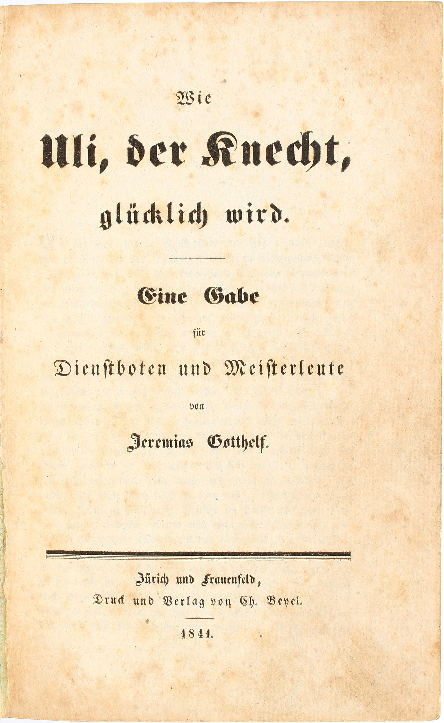 Title page of the first edition of the novel "Uli der Knecht".